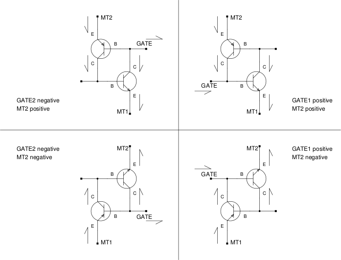 TRIAC equivalent circuit for all 4 quadrants